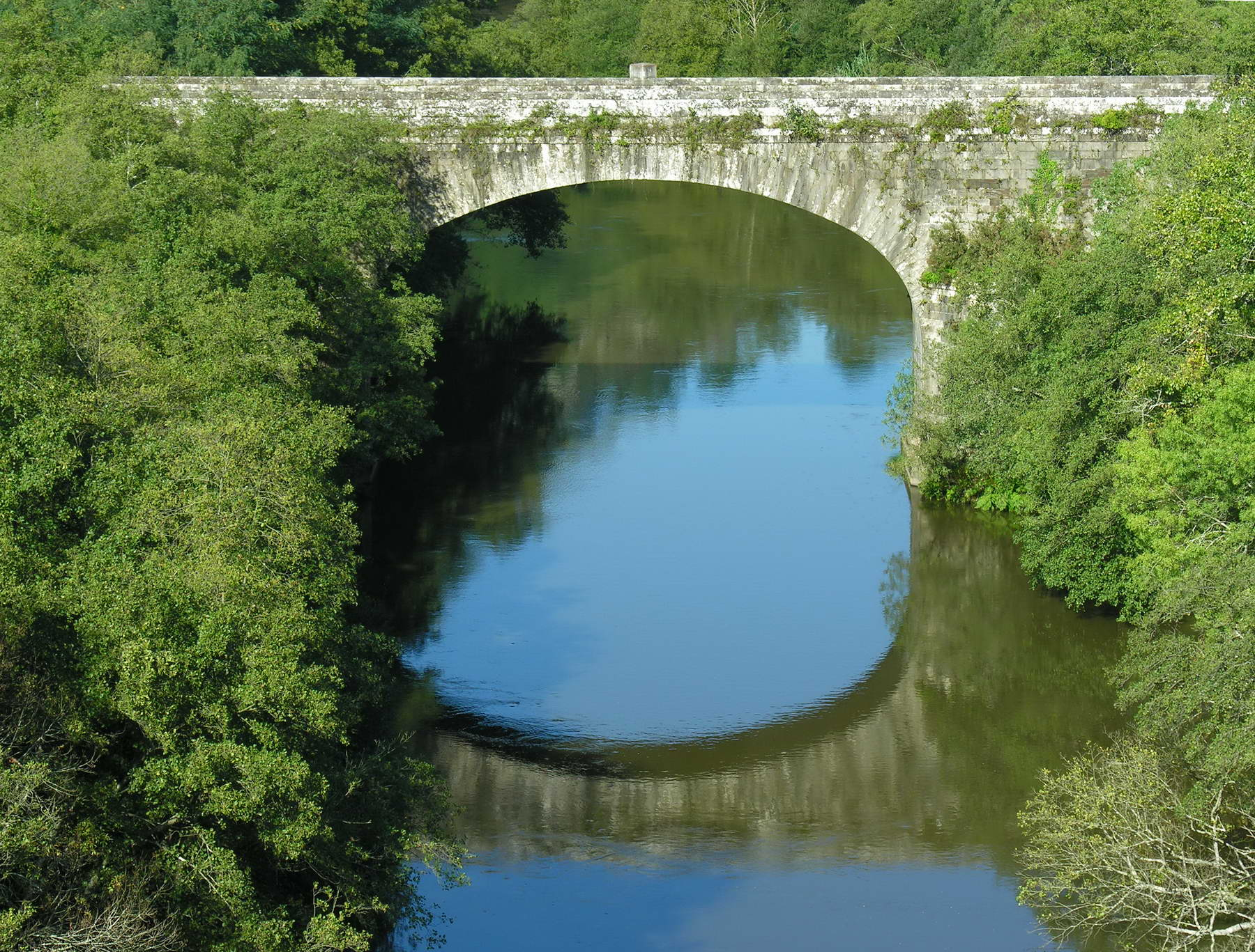 Publish by= Luis Miguel Bugallo Sánchez.